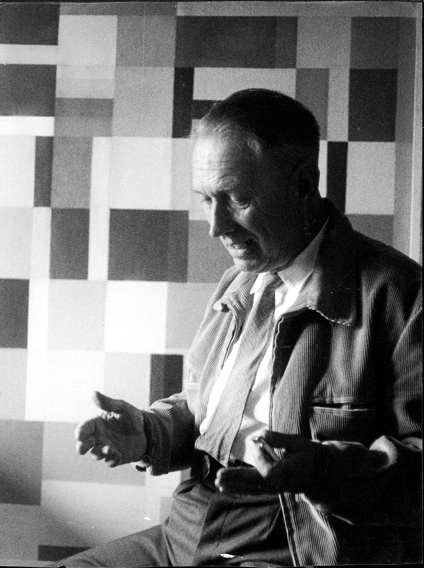 Diogo Graf, Swiss painter